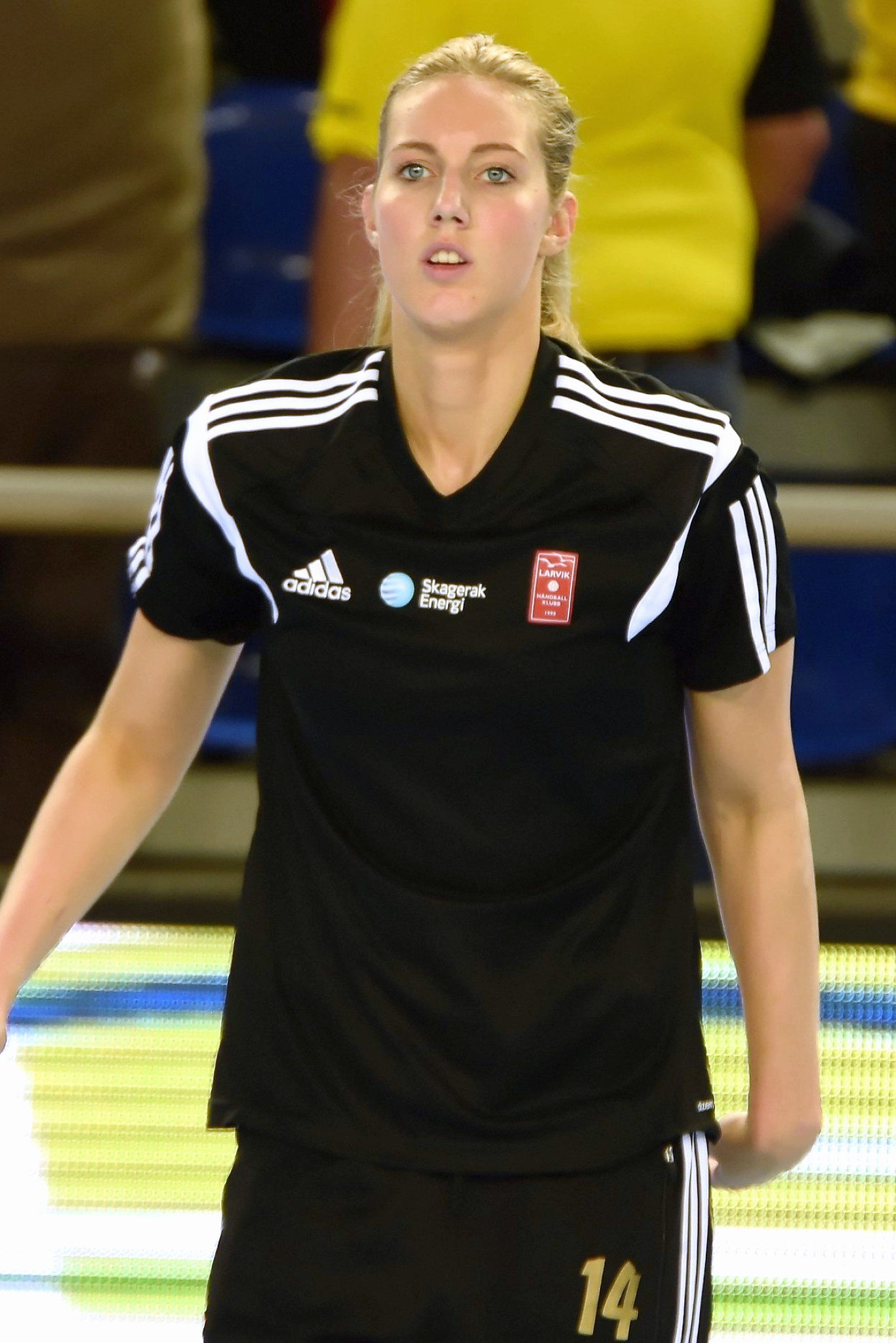 Kristine Breistøl - EHF Champion's League, Metz Handball / Larvik HK - 15 november 2014.